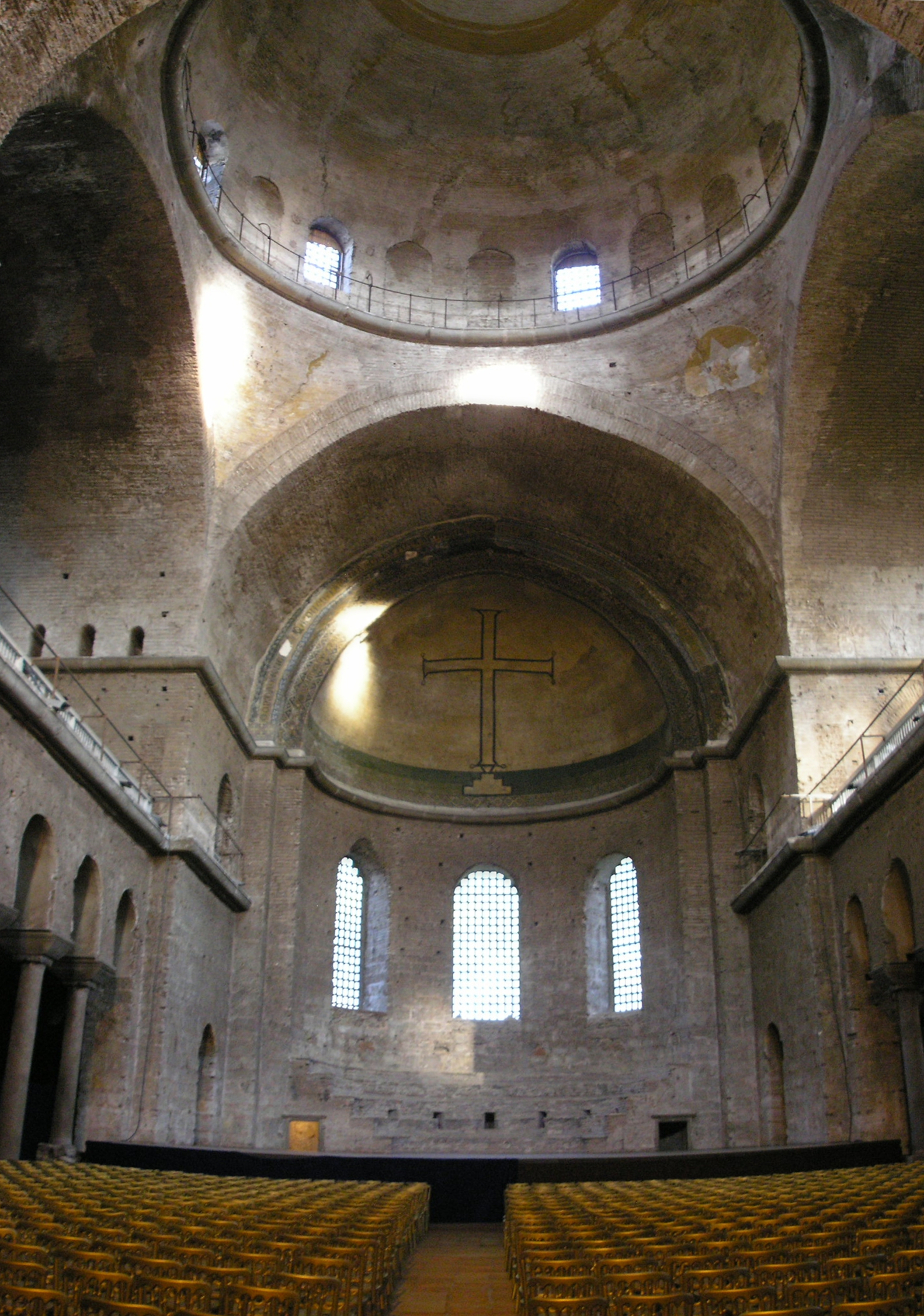 Image of Hagia Eirene church in Istanbul, next to Topkapi Palace.